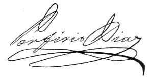 Porfirio Díaz's letter of resignation